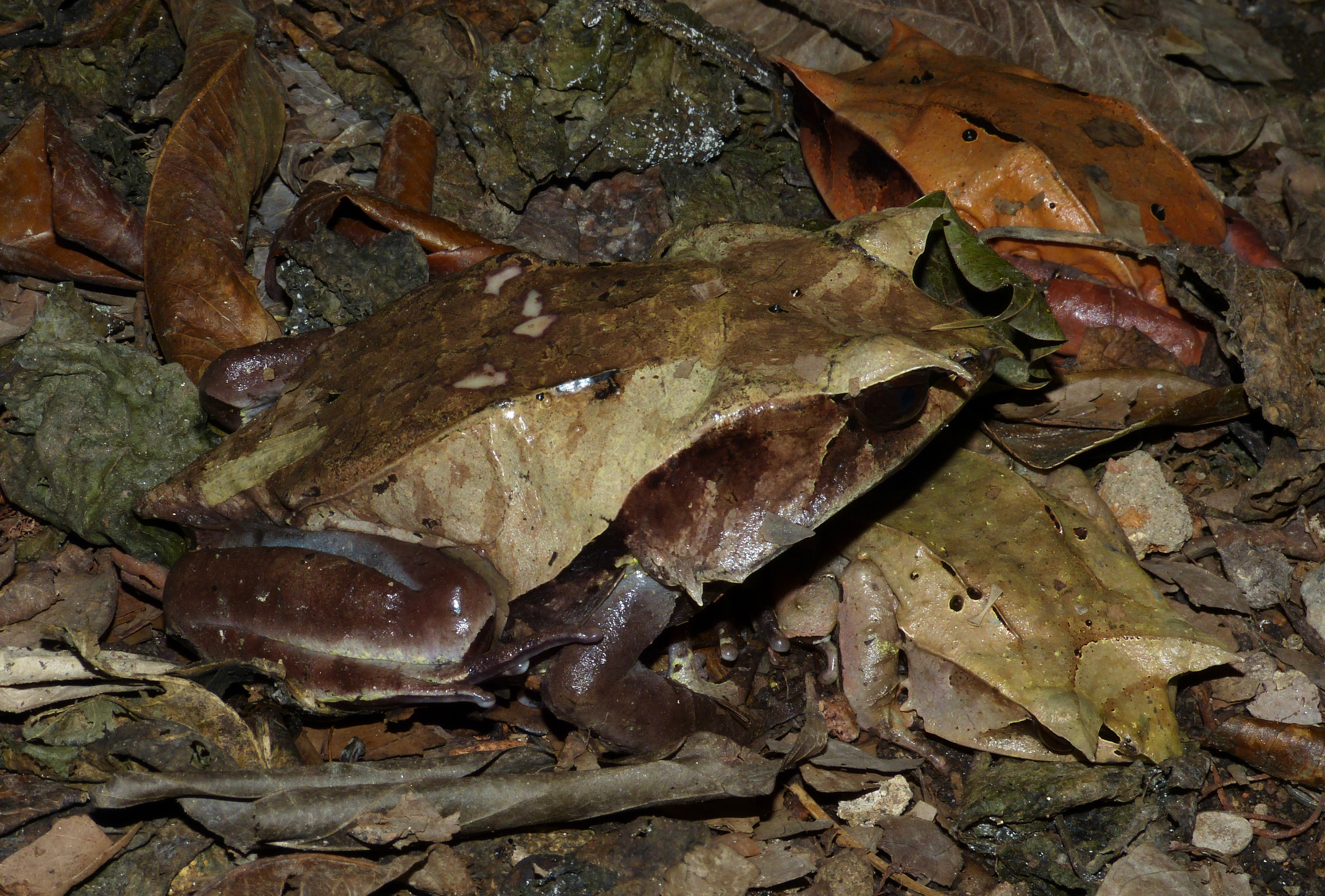 Butterfly Garden, Brinchang, Cameron Highlands, Pahang, MALAYSIA